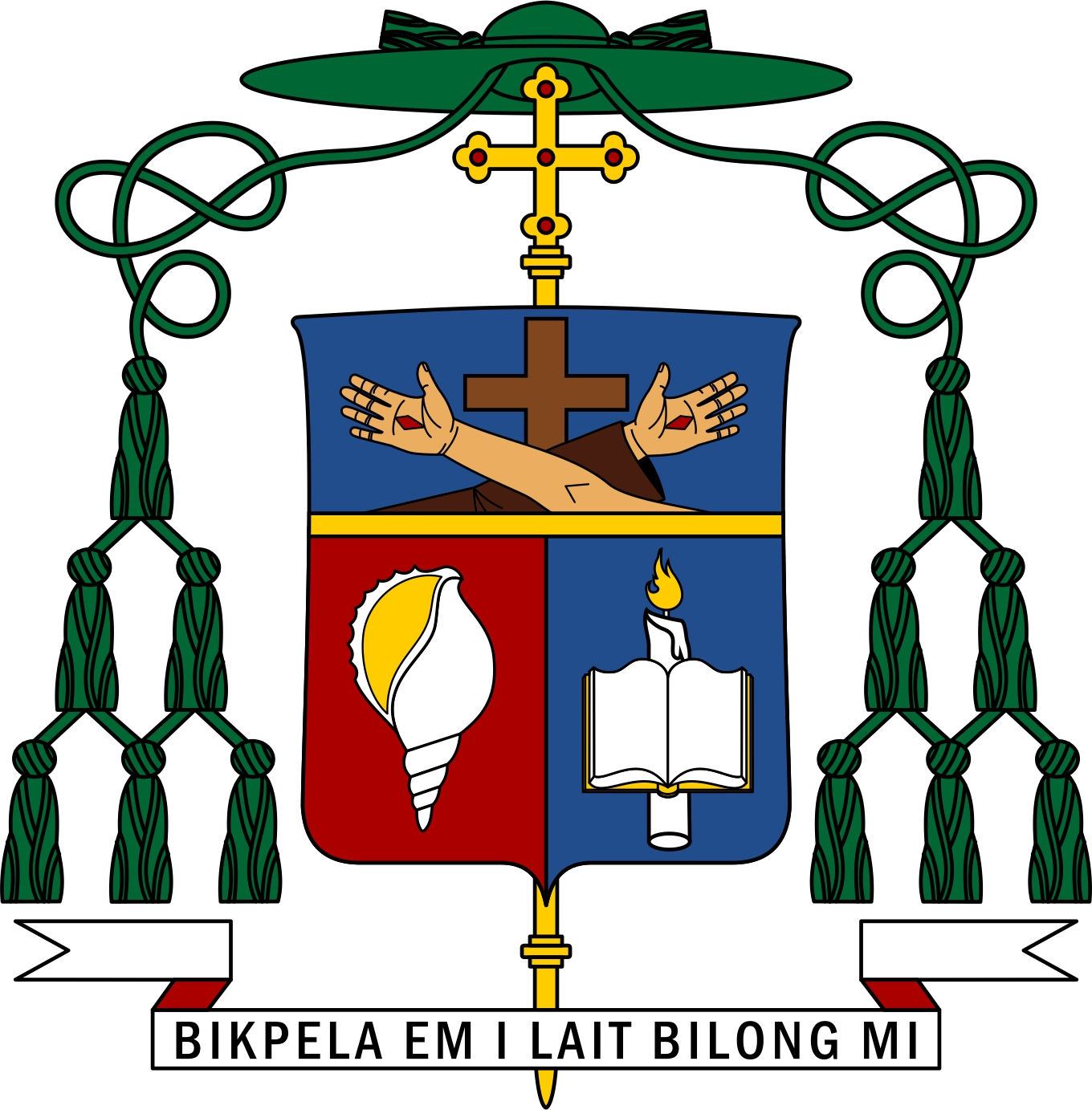 William Fey OFMCap - coat of ams